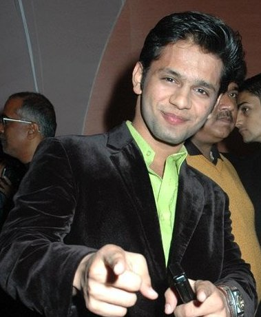 Indian singer Rahul Vaidya at the launch of Sonu Nigam's album Classically Mild